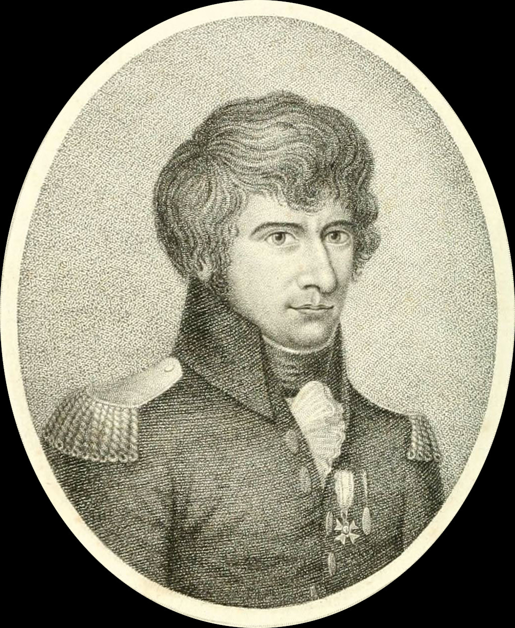 Johan Wilhelm Palmstruch (1770-1811)